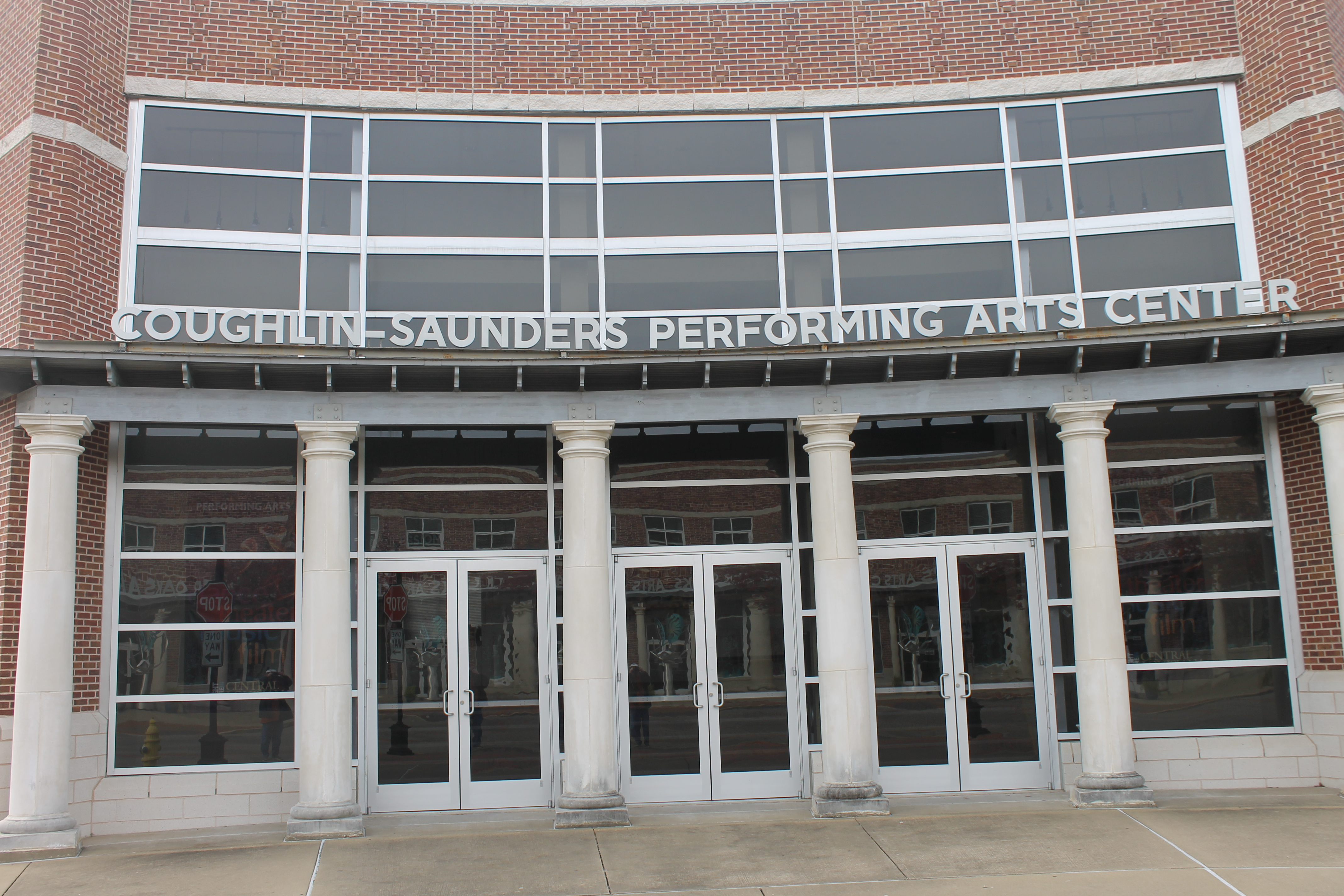 Coughlin-Saunders Performing Arts Center in Alexandria, LA (revised photo)